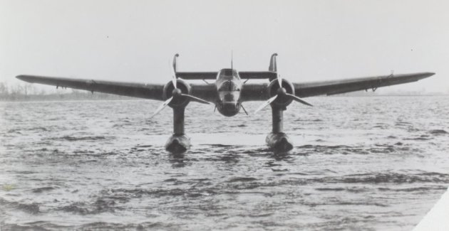 PictionID:38235069 - Catalog:Array - Title:Array - Filename:15_002290.TIF - -------Image from the Charles Daniels Photo Collection.----Album: German Aircraft.-----------PLEASE TAG these images with any information you know about them so that we can permanently store this data with the original image file in our Digital Asset Management System.-----------------SOURCE INSTITUTION: San Diego Air and Space Museum Archive